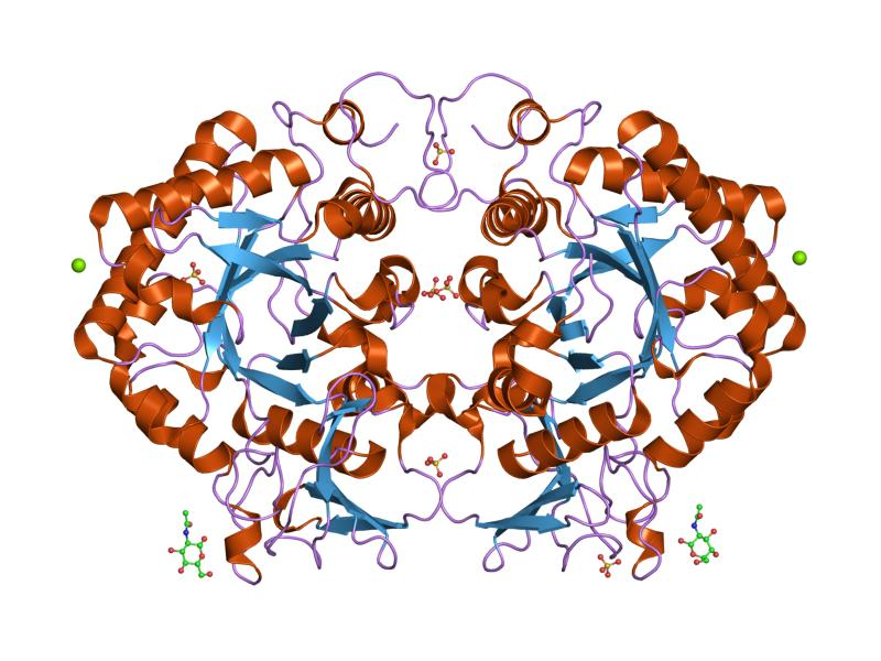 Cartoon representation of the molecular structure of protein registered with 1wno code.